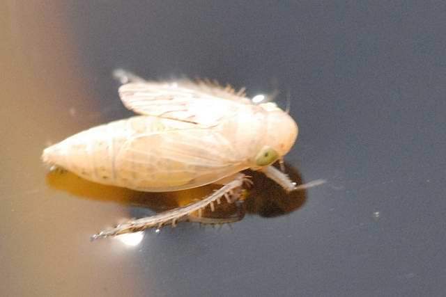 Doratura impudica from Commanster, Belgian High Ardennes .